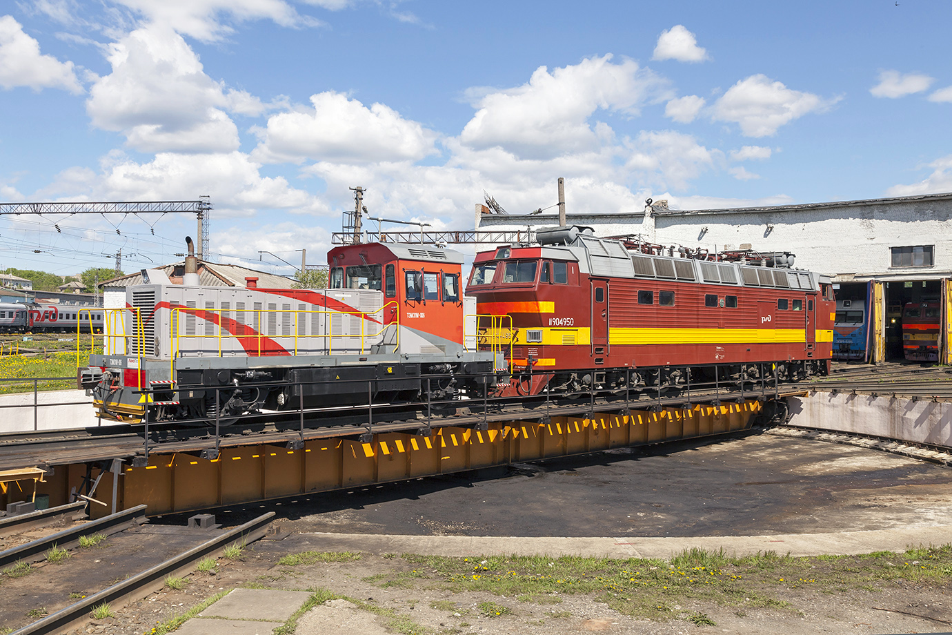 Diesel locomotive TEM31M-006 and electric locomotive ChS4t-495 on a railway turntable. Russia, Kirov region, depot Kirov.